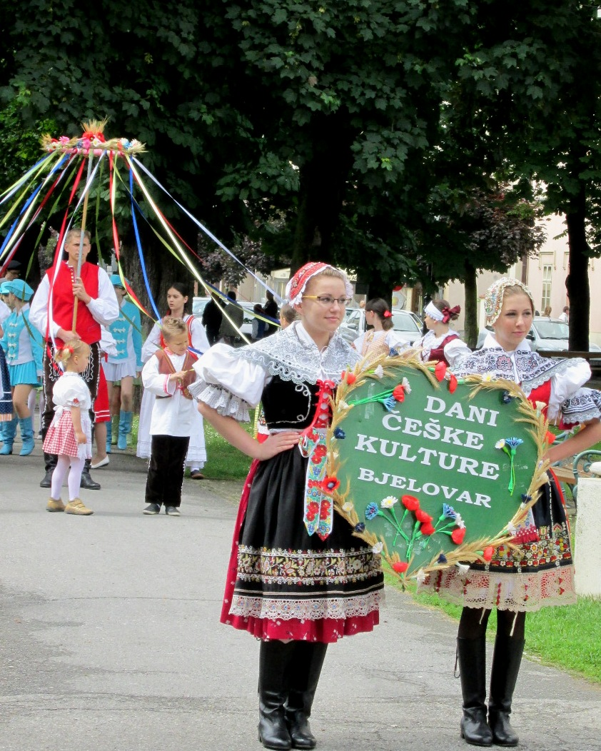 Days of Czech Culture in Bjelovar, Croatia